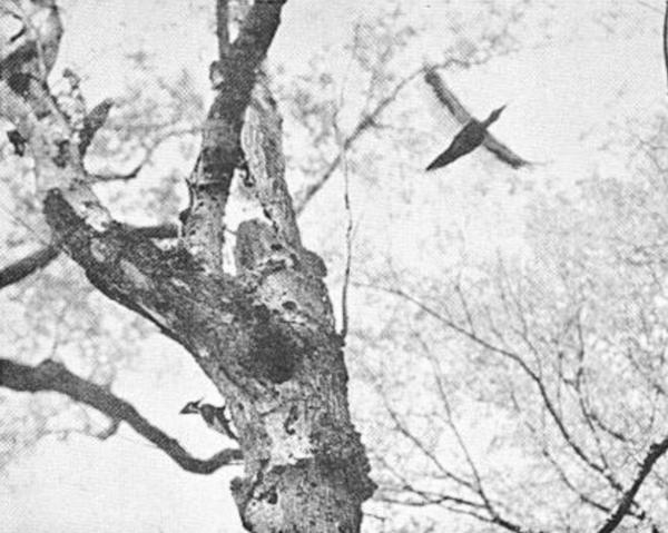 Ivory-Bills exchanging places on the nest. Photo taken in Singer Tract, Louisiana by Arthur A. Allen (April 1935). From Recent observations of the Ivory-Billed Woodpecker (Auk) Volume 54, Number 2, April, 1937.